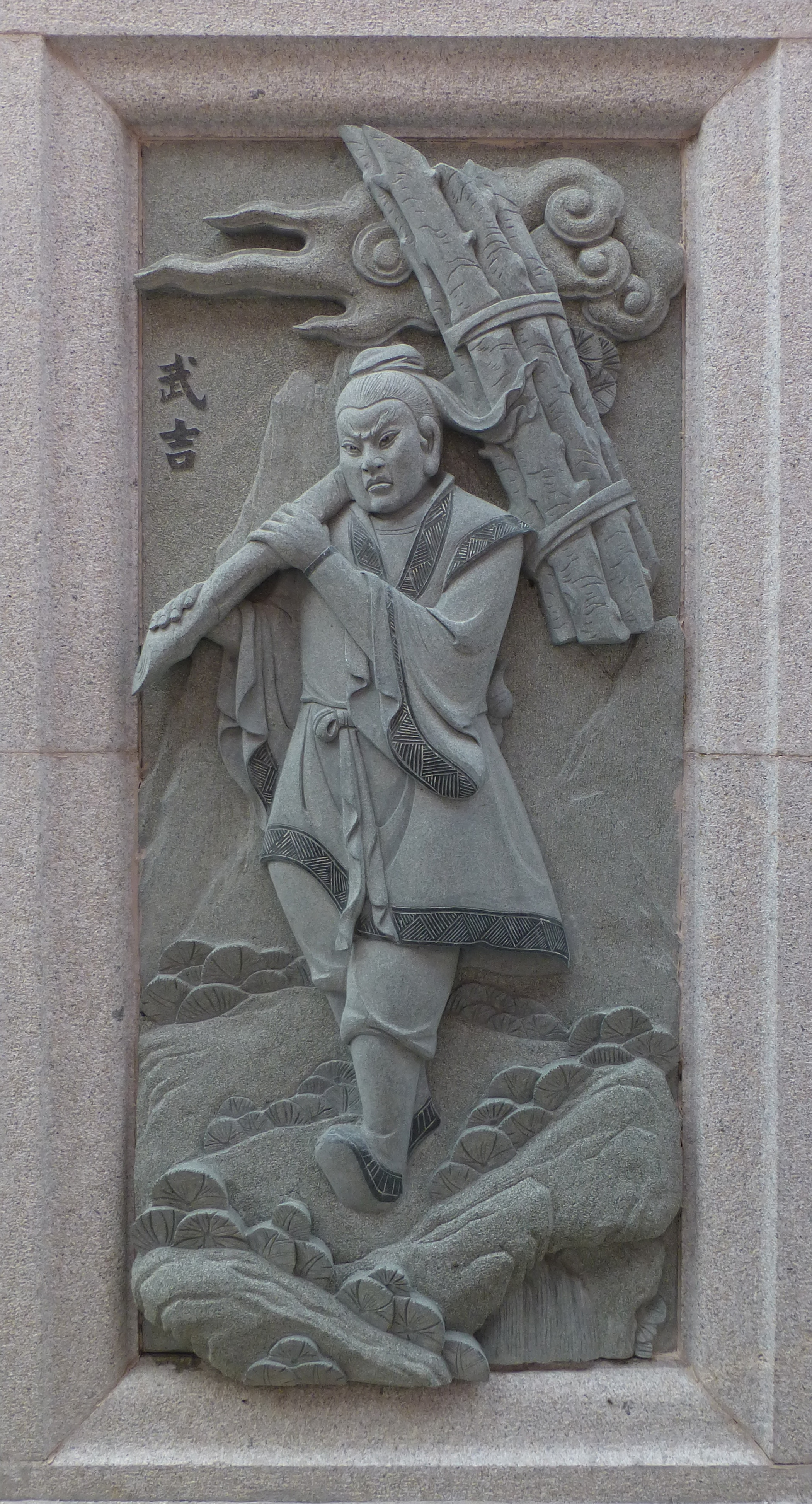 018 Wu Ji (in Feng Shui), Investiture of the Gods at Ping Sien Si, Pasir Panjang, Perak, Malaysia Photograph from the Ping Sien Si Temple in Perak, Malaysia taken by Anandajoti.